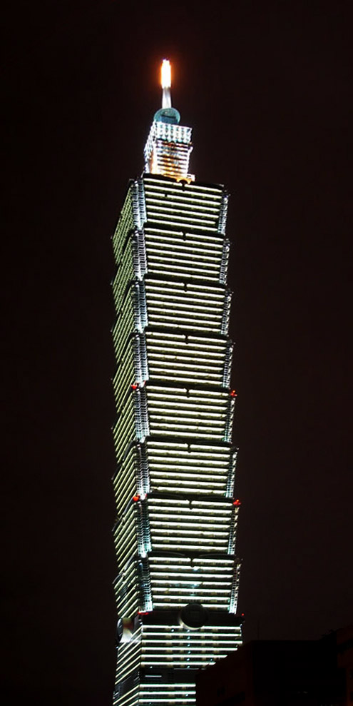 This is a rare picture of Taipei 101 which was fully lit. Taipei 101 is currently the second tallest building on the world.